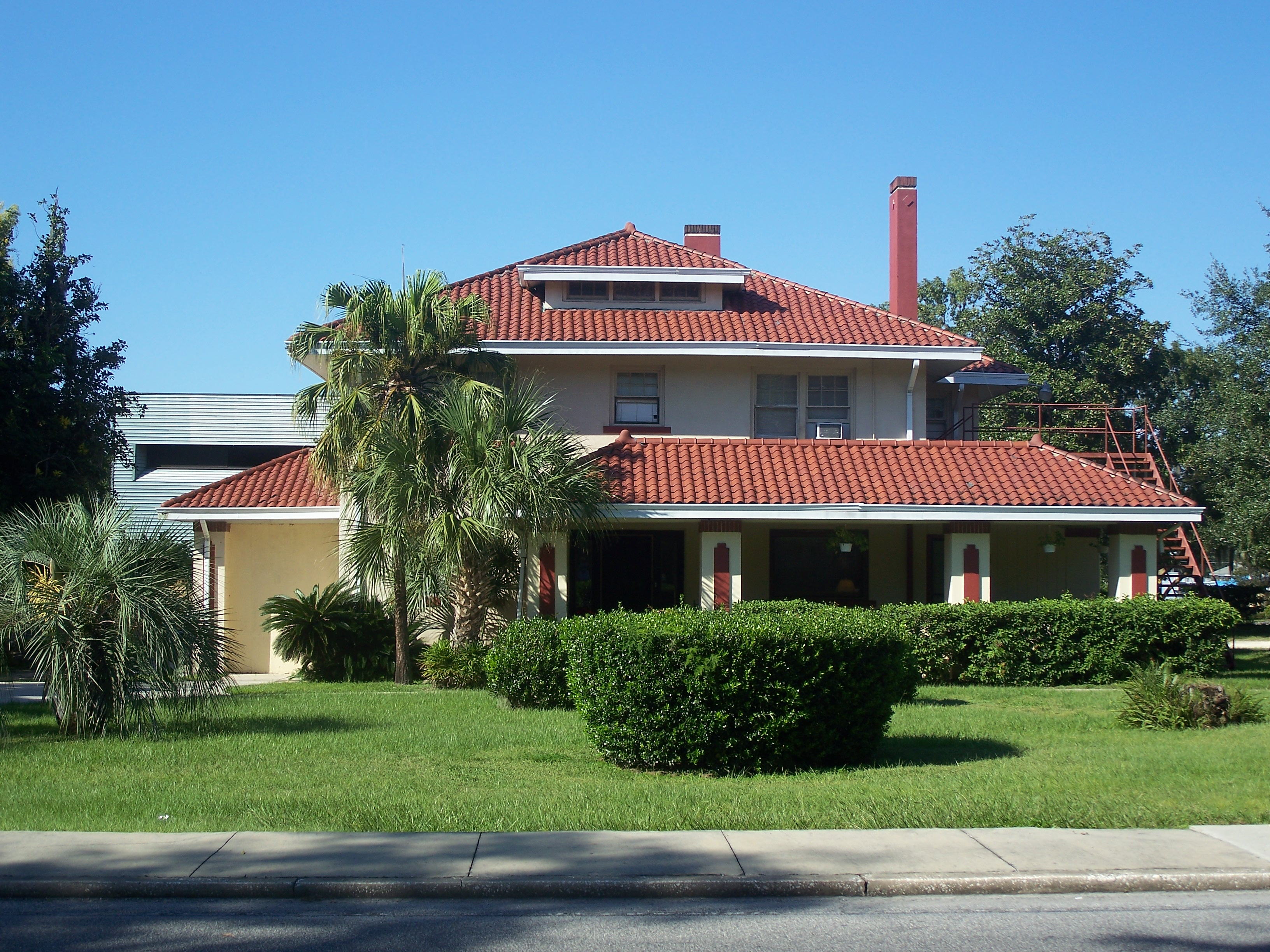 Ocala, Florida: Ocala Historic District: Helvenston House.